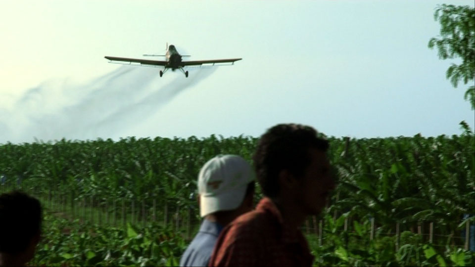 Airplane cropdusing a banana plantation in Nicaragua. Still from the documentary Bananas!*.